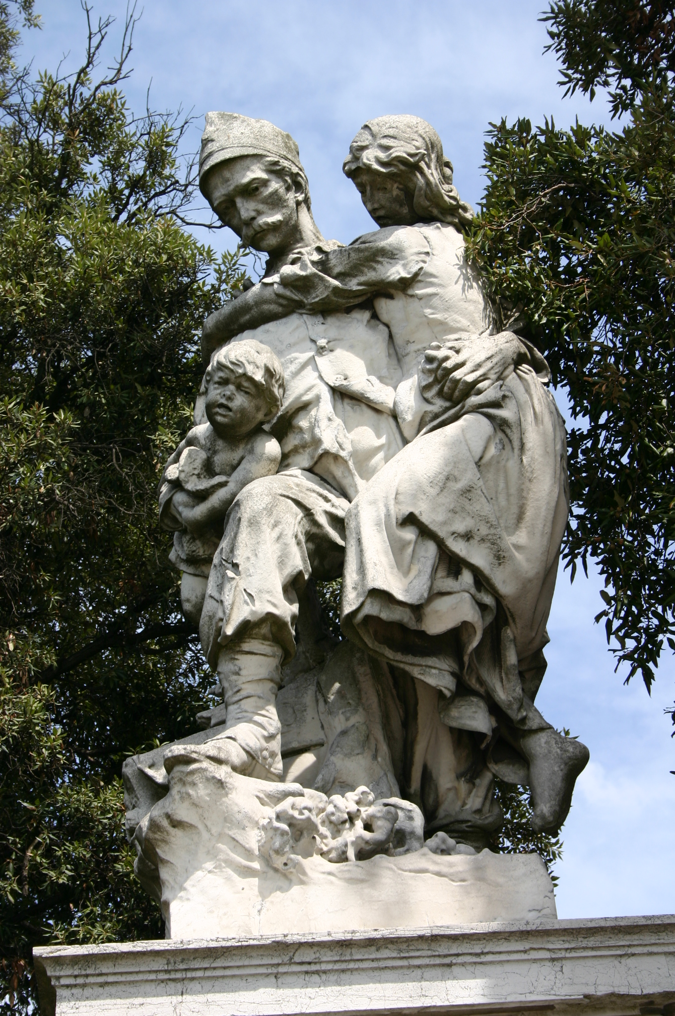 Venice, Giardini della Biennale gardens: Monument to sea and land soldiers, sculpted by Augusto Benvenuti (1838-1899) in 1885, to commemorate the help given by the army during the catastrofic 1882 flood. Picture by Giovanni Dall'Orto, August 10, 2007.